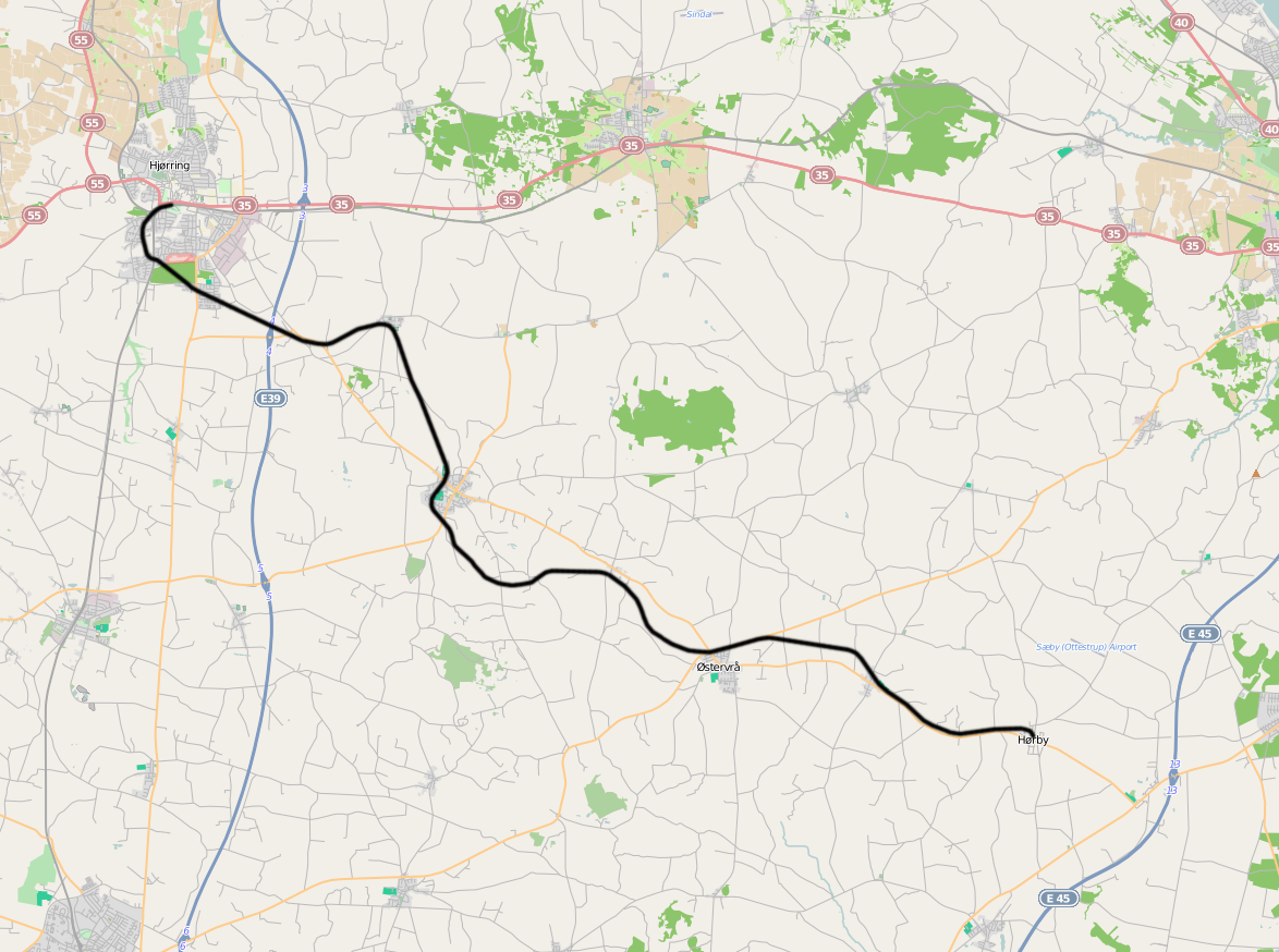 Railway line Hjørring - Hørby